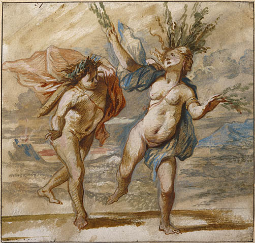 Apollo and Daphne, Painting by Johann Bockhorst (1604-1688) (aka Jan Boeckhorst)